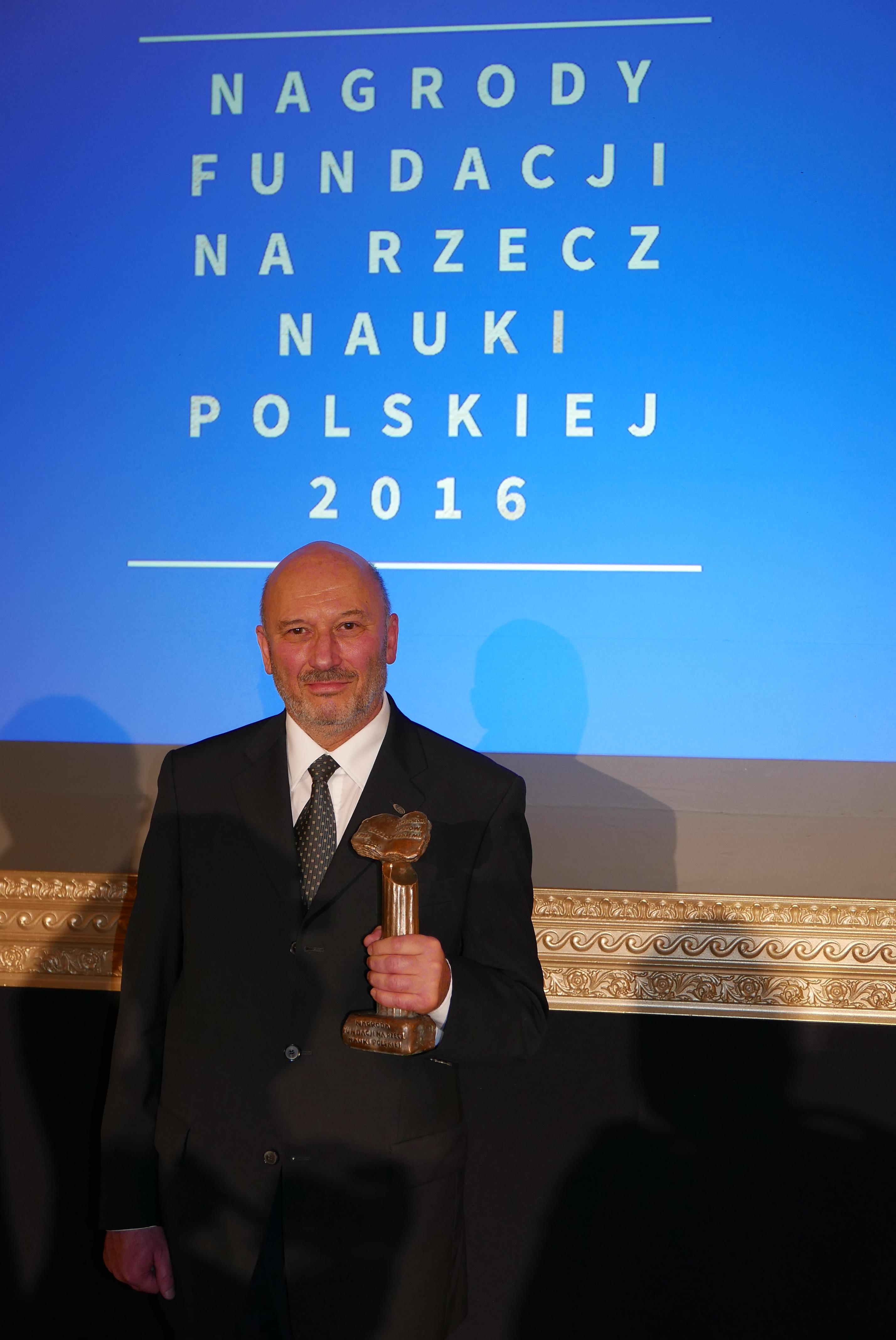 prof. Jan Marcin Kozłowski awarded the prize of FNP, the so-called Polish Nobel prize.